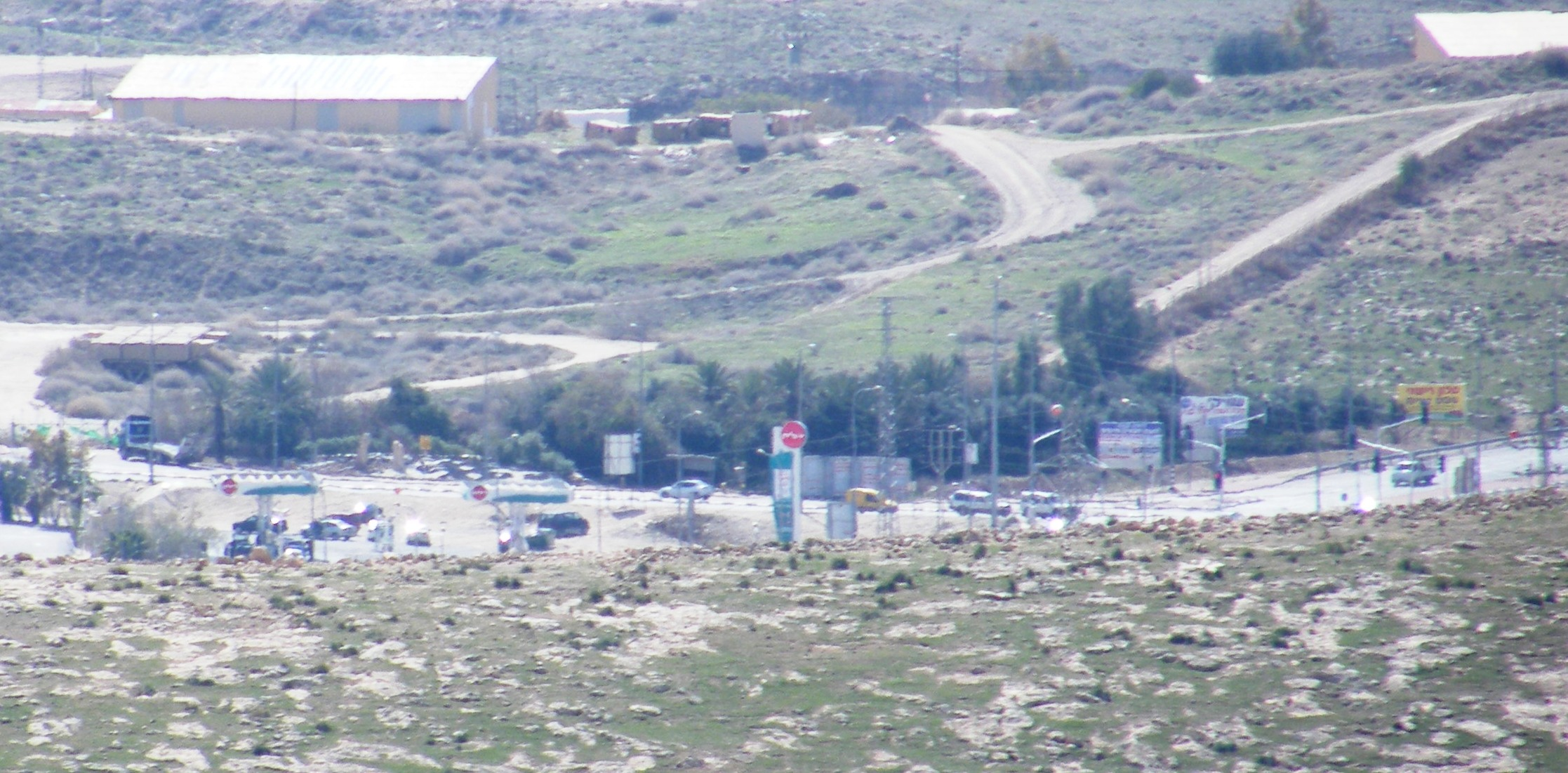 Mishor Adumim Junction